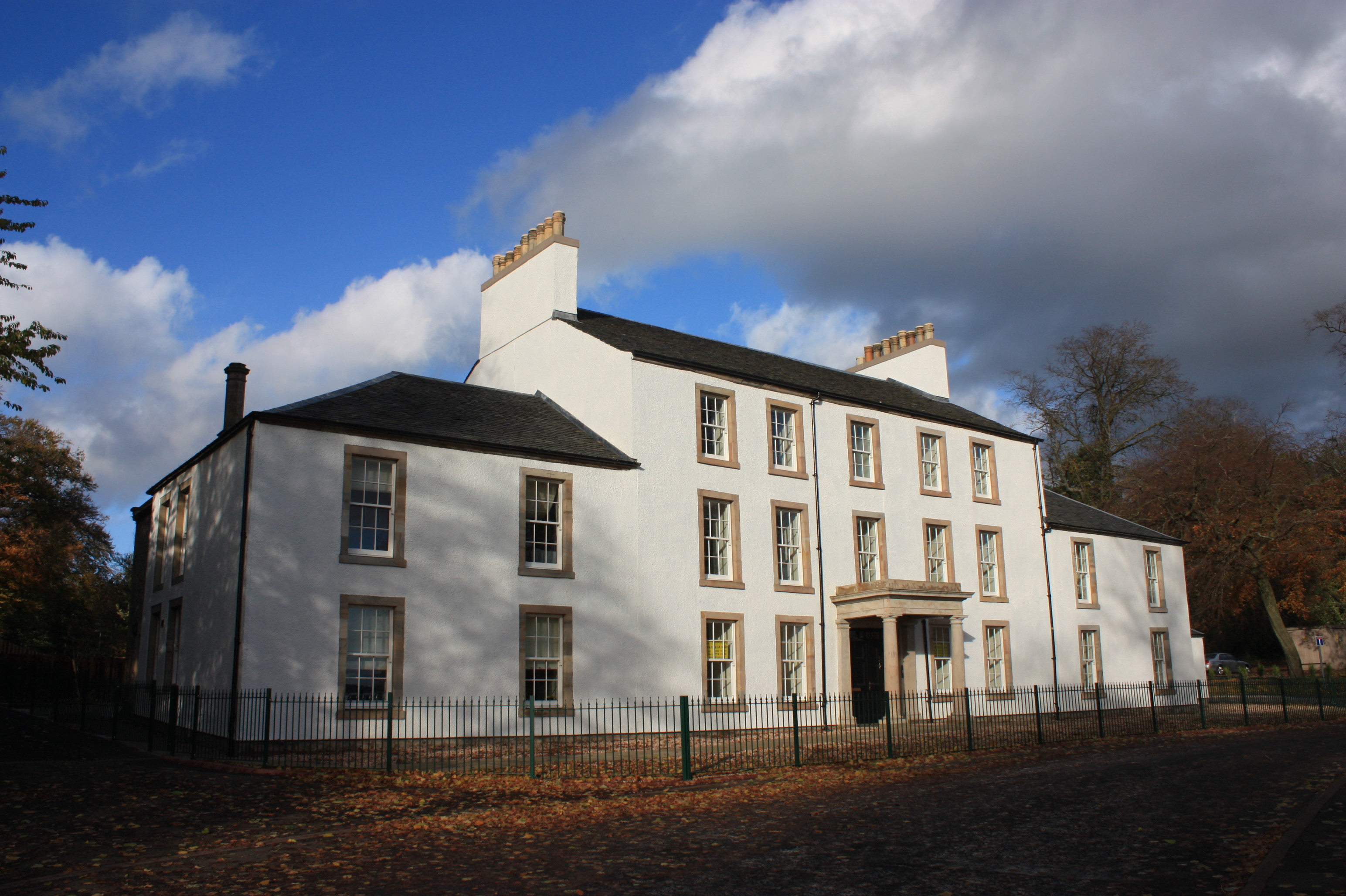 Howden House, Livinston